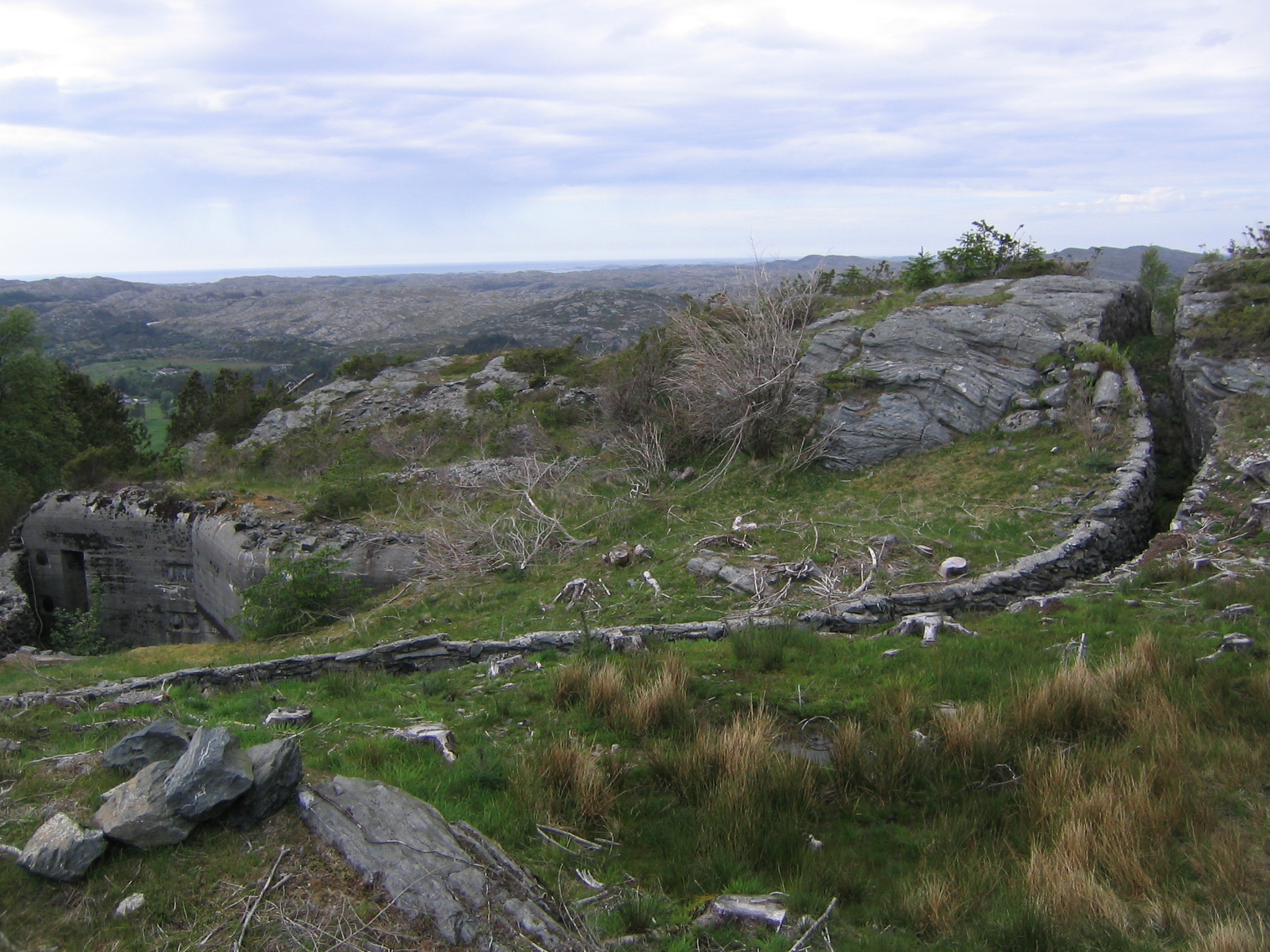 Trenches and a bunker at Fjell festning.